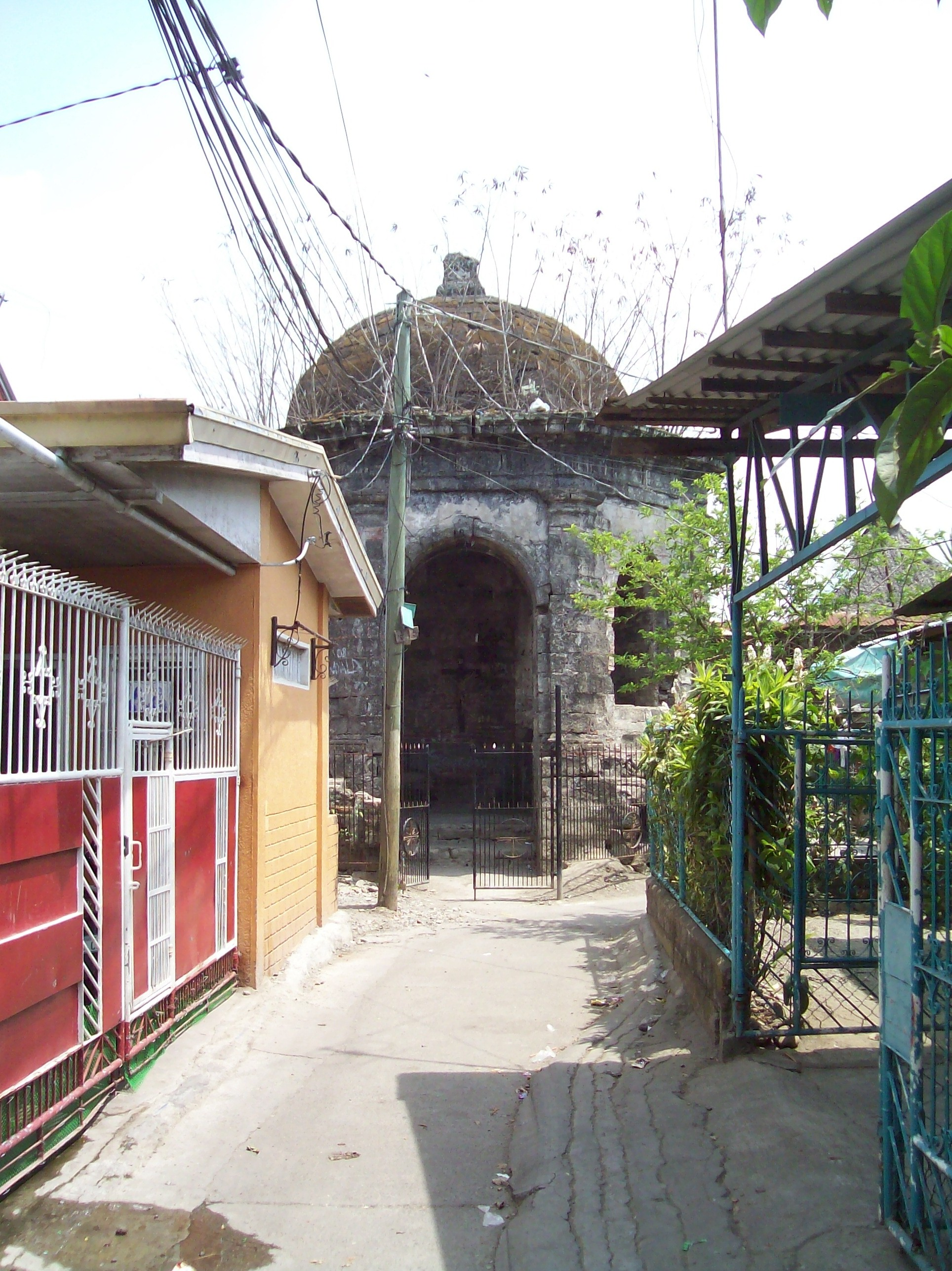 Simborio chapel